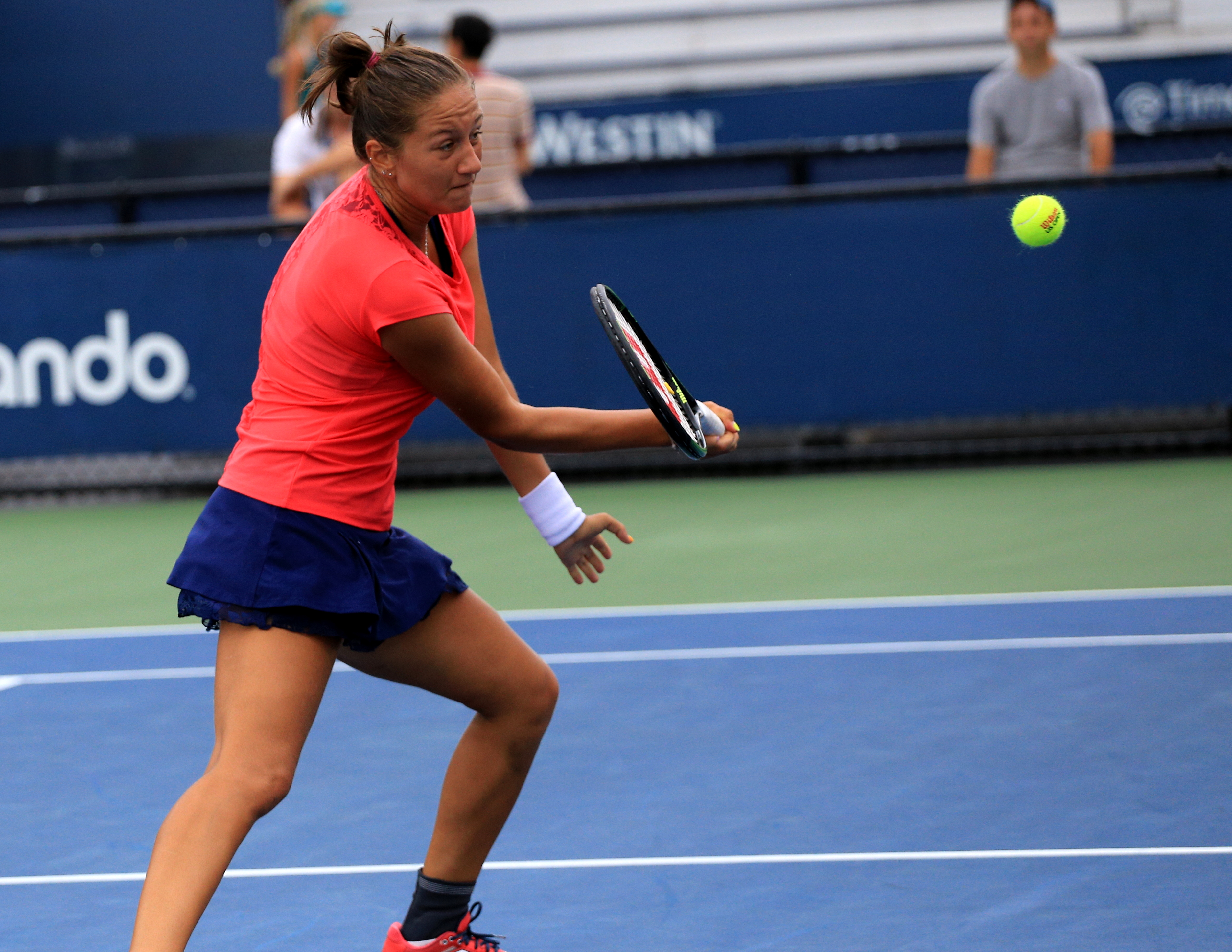 Iryna Shymanovich at the 2015 US Junior Open